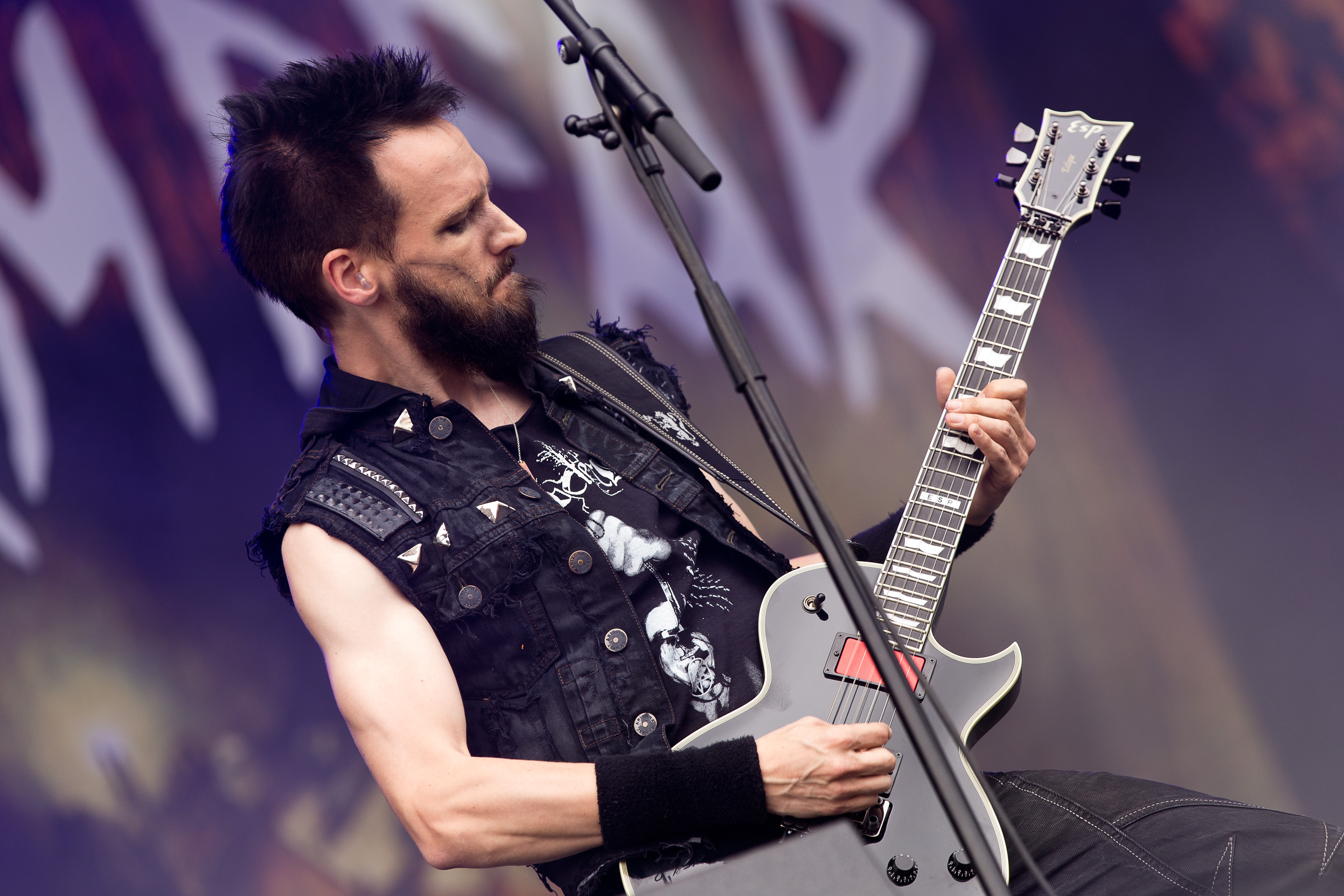 The Norwegian black metal band Kampfar at the Rockharz Open Air 2016 in Ballenstedt/Germany.